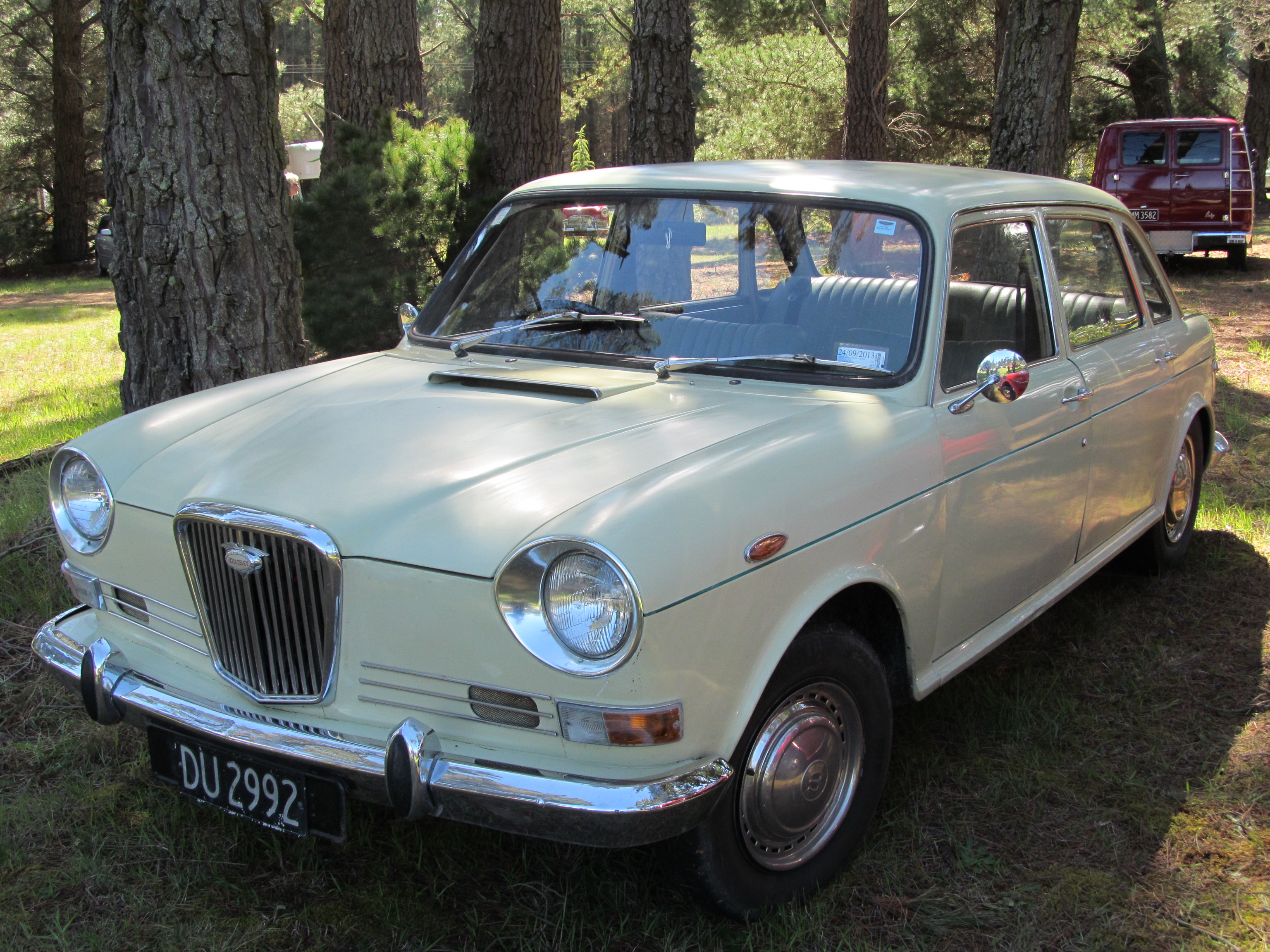 It's rare enough an occurrence to see a standard Austin or Morris Landcrab in NZ, let alone one of these neat Wolseley variants. This one was beautifully original.